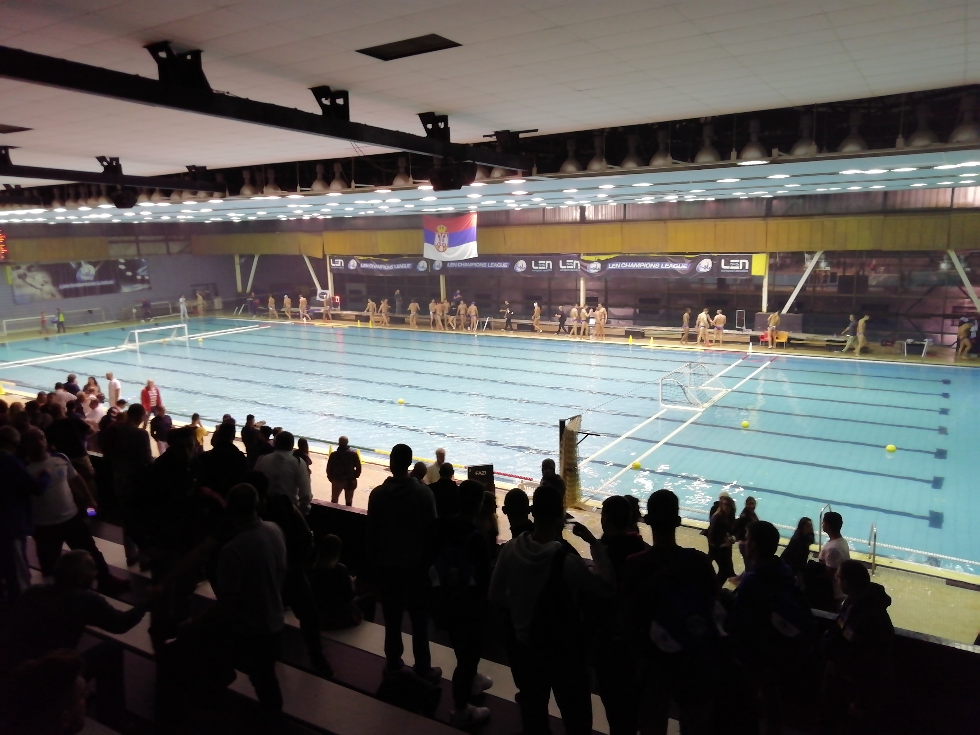 SC Banjica Swimming Pool after game between VK Partizan and VK Šabac in Regional Water Polo League, October 2019